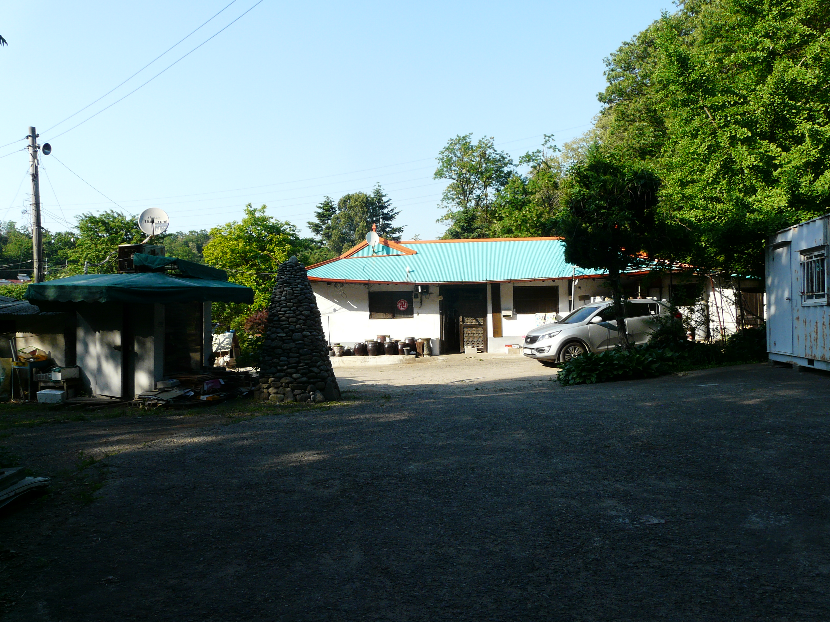 A shamanic temple